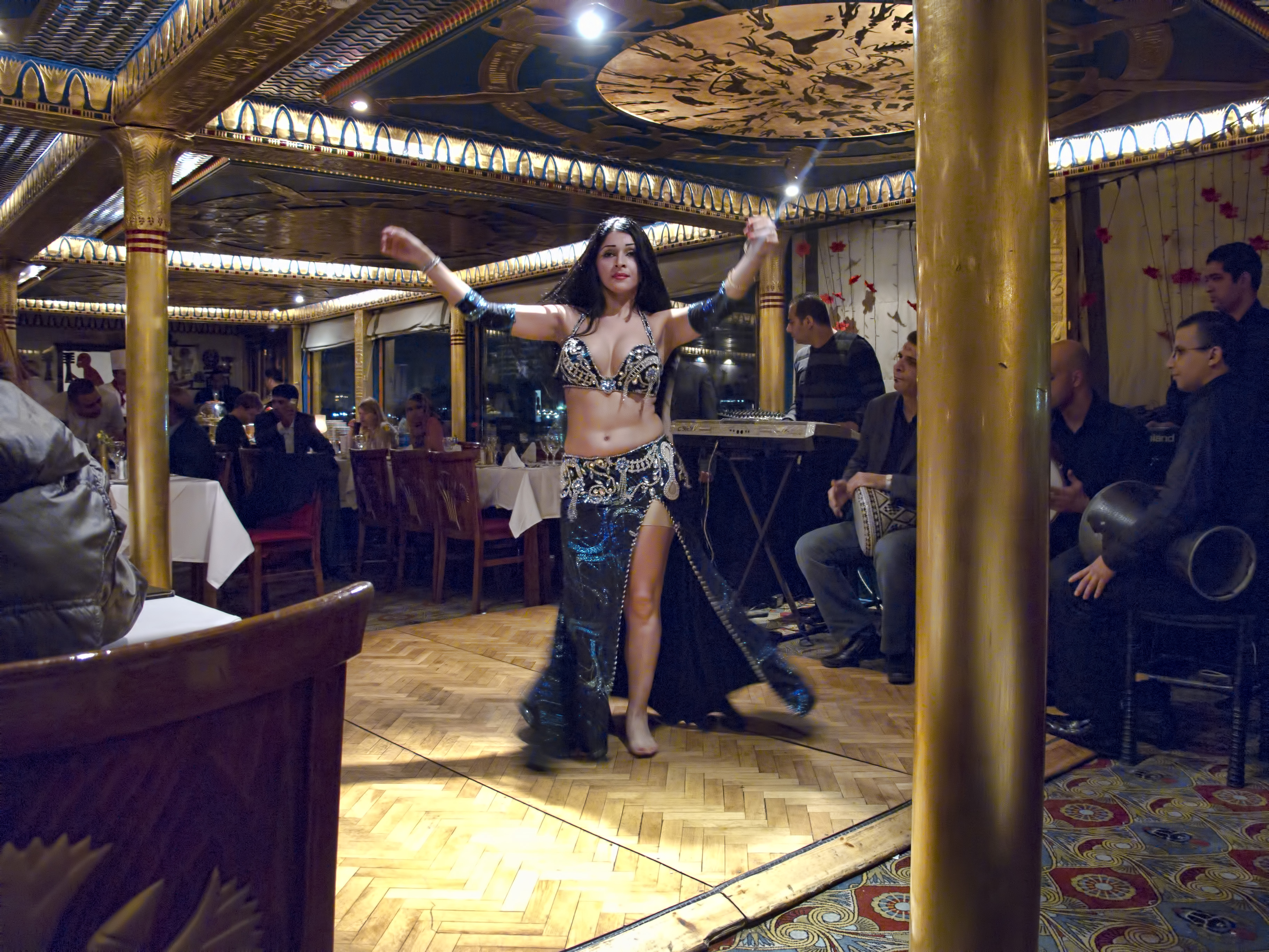 Cairo dinner cruise. Entertainment included a bellydancer. (Apparently one of the perks of working there is access to the buffet.) Bellydancers are a popular entertainment but most of the performers are imported as it is not seen as an appropriate activity for proper Egyptian women.